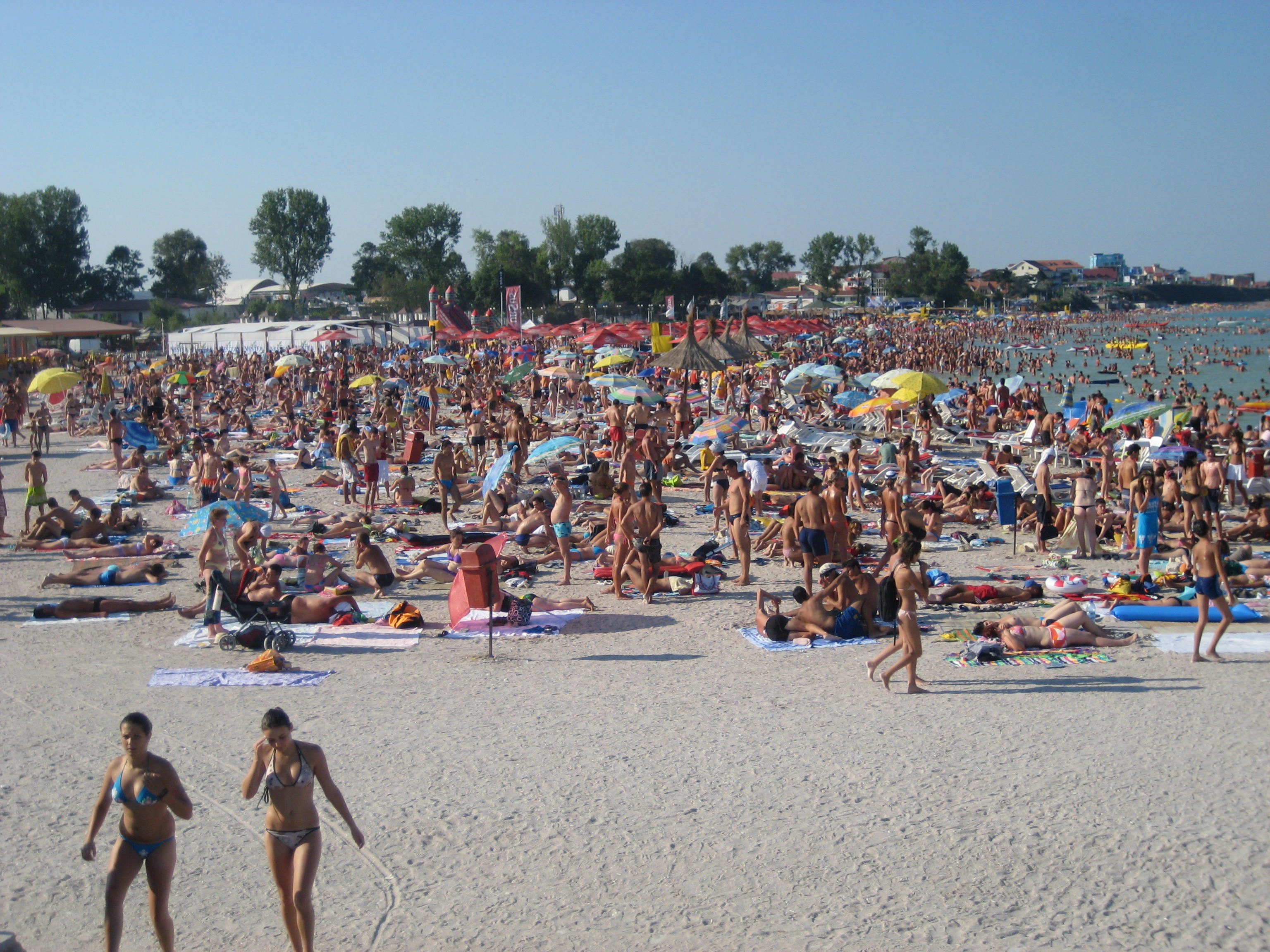 a beach in Costineşti